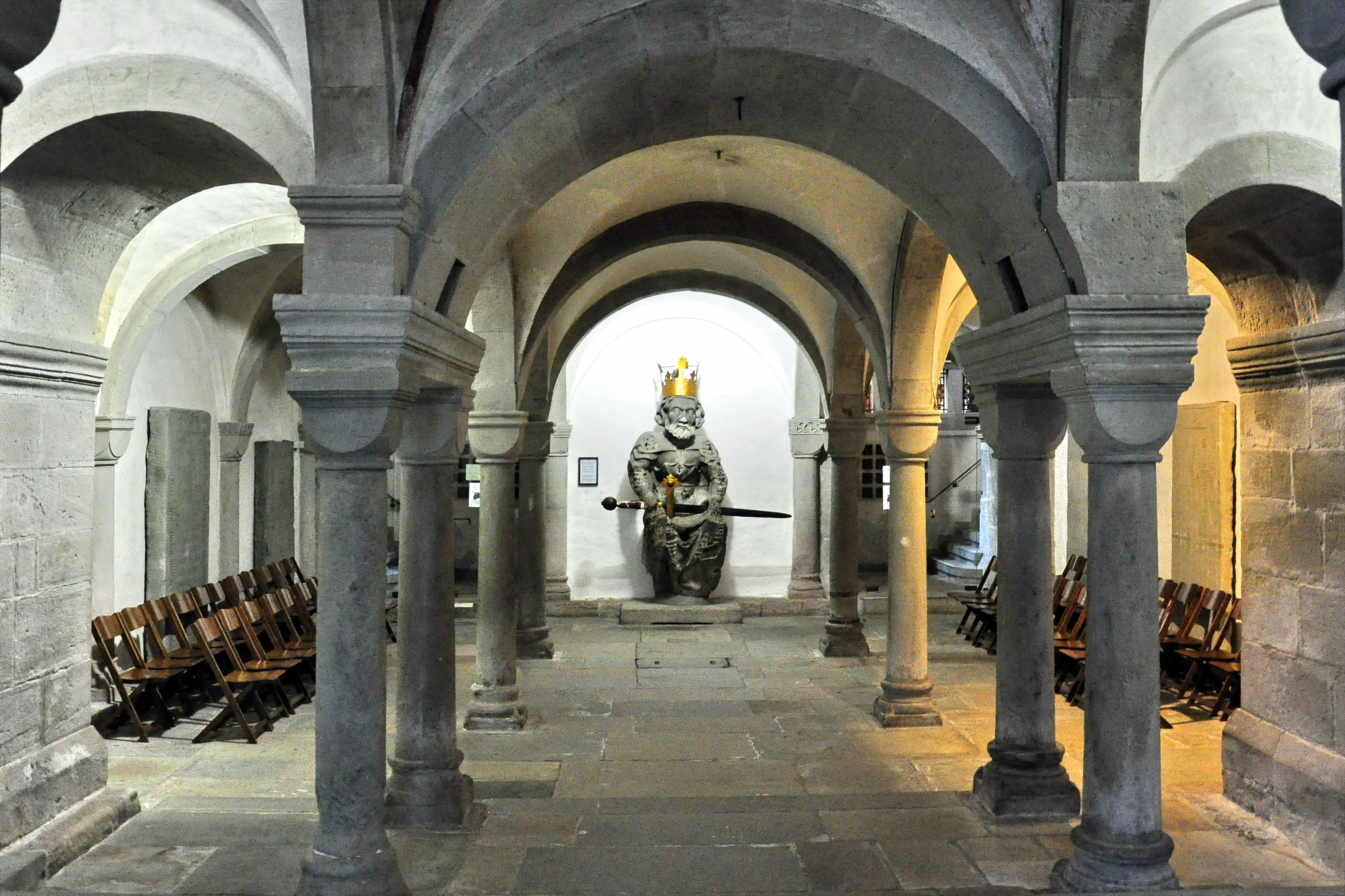 Zürich, Grossmünster church : Crypt with Charlemagne statue (original) of the southern tower.